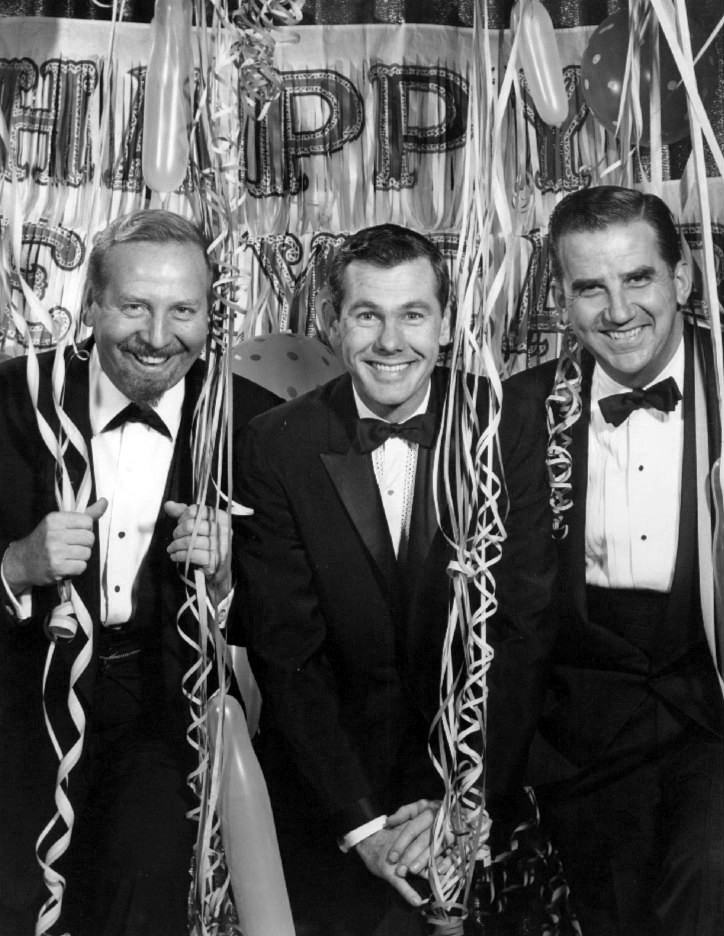 Publicity photo of the cast of the television program The Tonight Show as it prepared to celebrate 1963 with its new host, Johnny Carson. From left: bandleader Skitch Henderson, Johnny Carson and Ed McMahon.